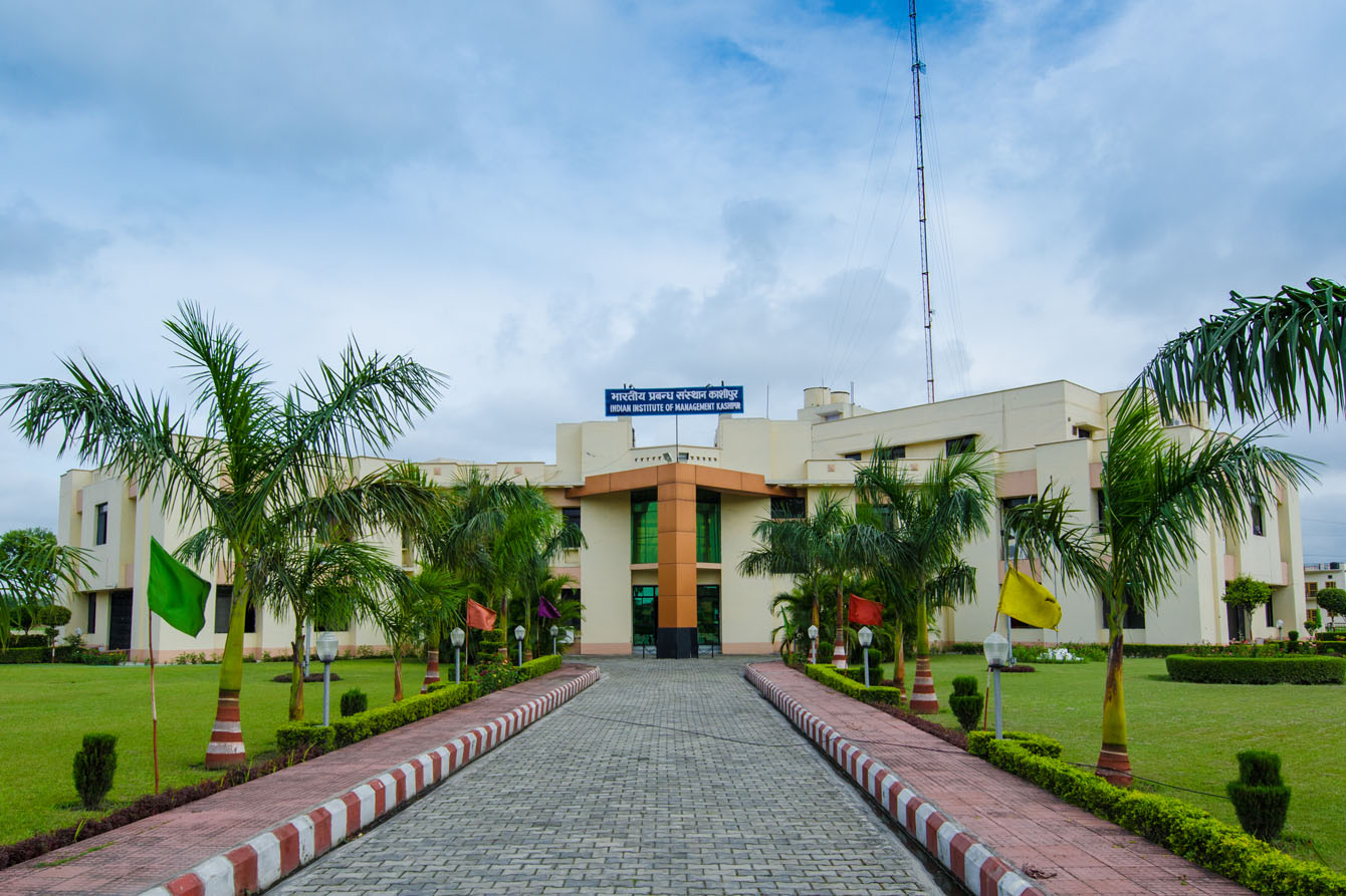 Indian Institute of Management, Kashipur